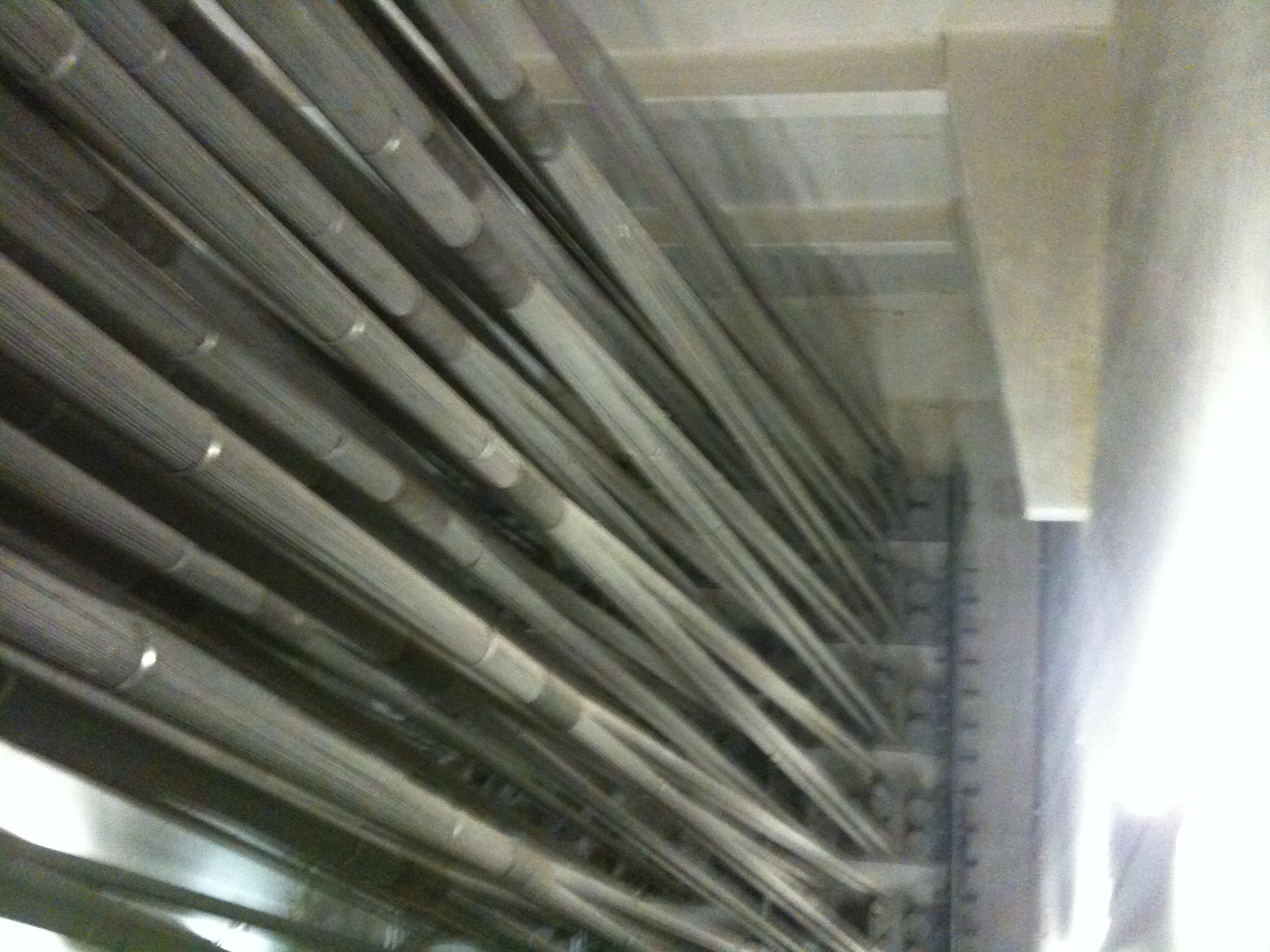 An image of the interior of the anchorage chamber, showing the main support cable tensioning and anchorage connections